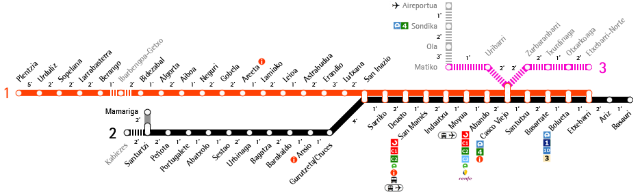 Metro Bilbao network map (2013)